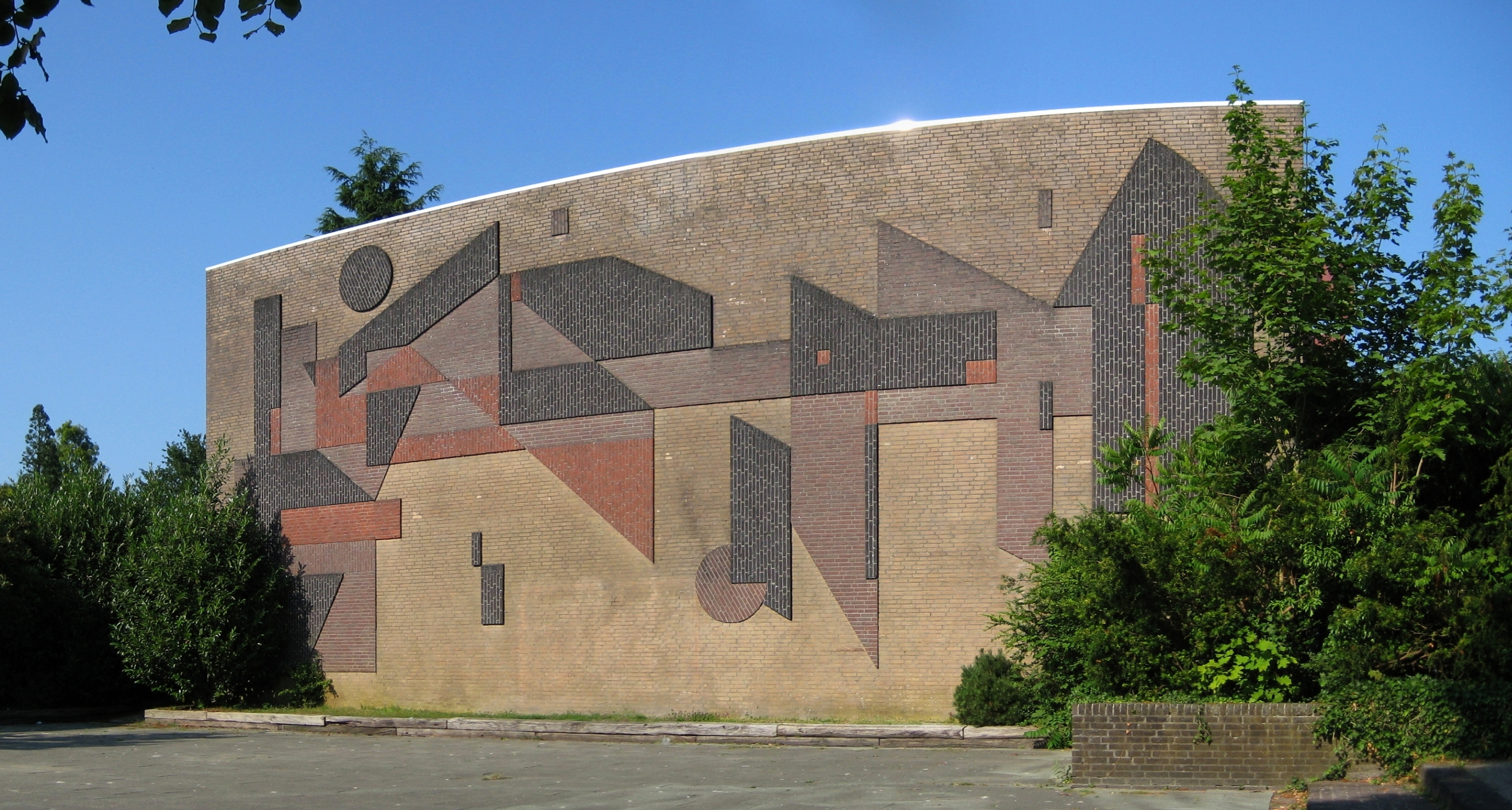 Sports hall De Bam in Haren, a village in the Dutch province of Groningen.